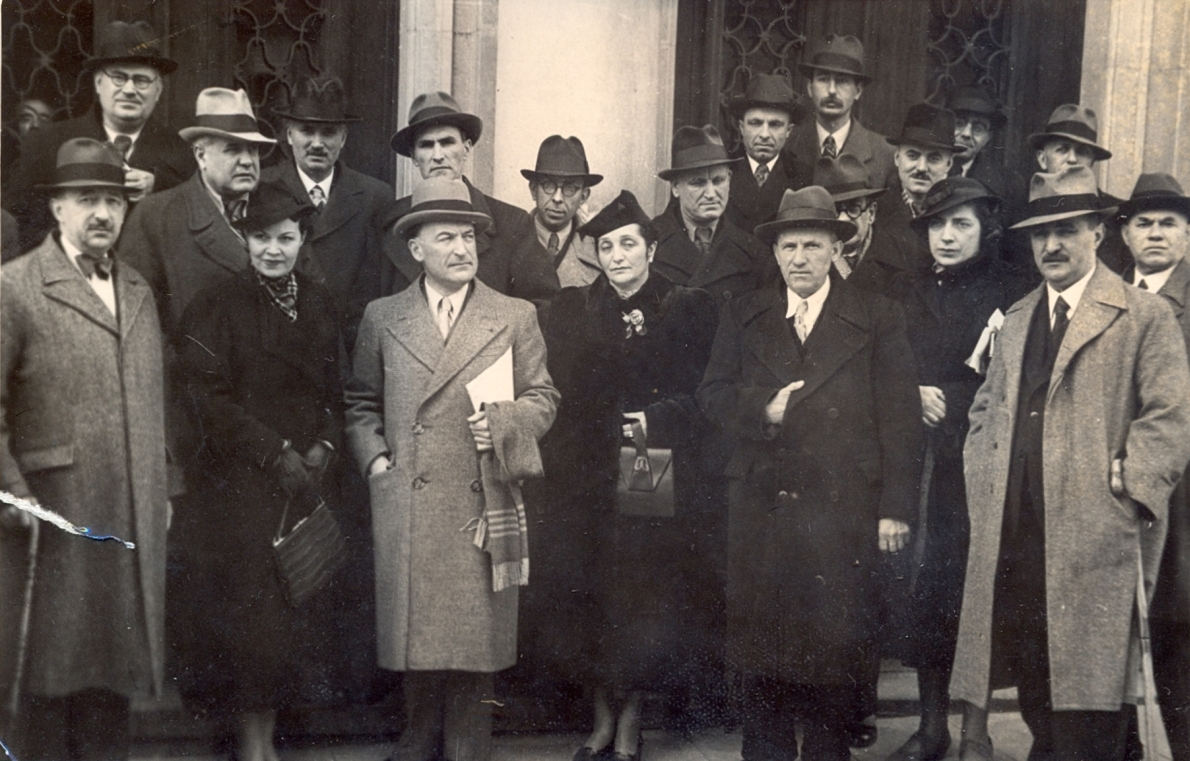 Bulgarian writers, poets, literary critics and public figures, gathered on the occasion of Jules Romains' visit to Bulgaria. According to the description on the back of the photo, the people are Georgi Raichev, Vladimir Vasilev, Konstantin Konstantinov, Chavdar Mutafov, Asen Raztsvetnikov, Anna Kamenova, Emanuil Popdimitrov, St. L. Kostov, Boyan Bolgar, Angel Karaliychev, Nikolai Liliev, Dora Gabe, Jules Romains, Georgi Tsanev, Malcho Nikolov, Elisaveta Bagriana, Sirak Skitnik, Konstantin Petkanov, Bogdan Filov.